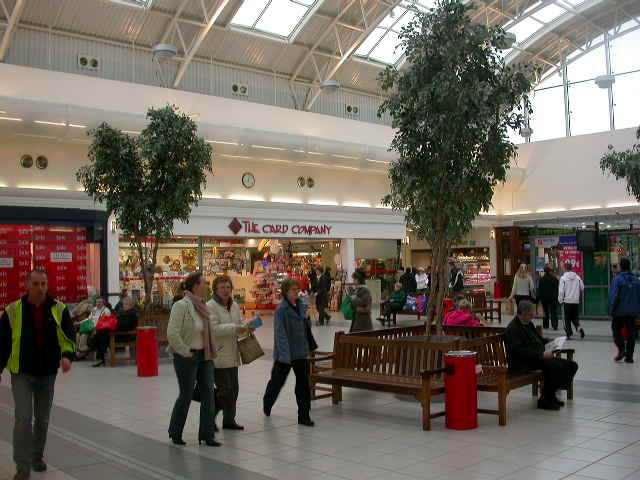 Ionad Siopadoireachta an Chorrain, 2005, togtha ag Sean an Scuab